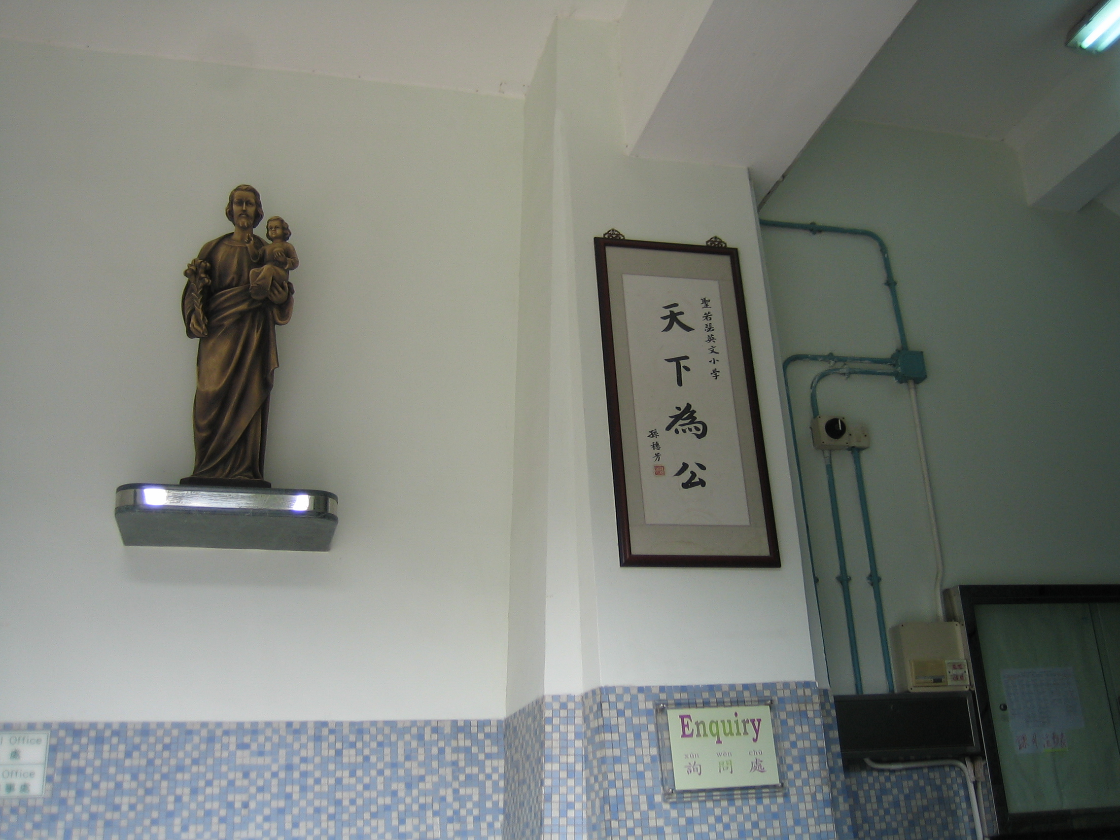 This is the Enquiry of SJACPS campus, Hong Kong. If you have any questions about the licensing (like cc-by-sa, GFDL), or you want to republish the image without using the licensing shown as below, you are welcome to leave a message on the User Talk Page of my Chinese Wikipedia account. 中文（香港）: 這照片是香港九龍聖若瑟英文小學校舍詢問處。 如你對這照片版權許可協議 (例cc-by-sa, GFDL) 有疑問，或你想把照片不用以下的版權協議轉載，歡迎你到我在中文維基百科的用戶對話頁留言。